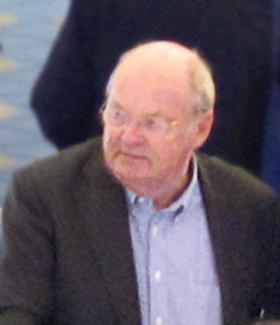 Prof. Klaus Diedrich, German gynaecologist